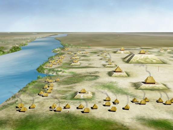 An illustration of the Holly Bluff Site, a Plaquemine Mississippian culture mound site in Yazoo County, Mississippi